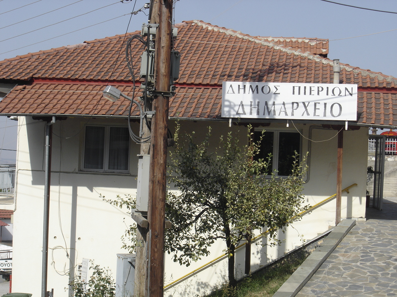 The city hall of Municipality Pierion in Ritini.